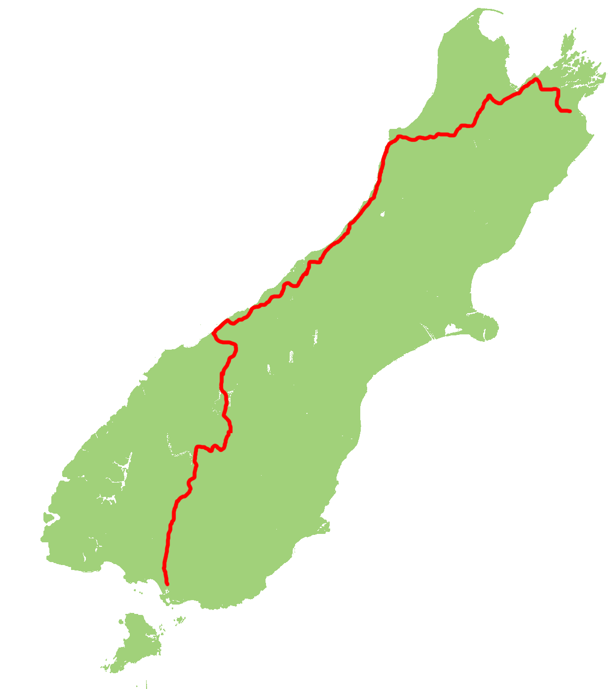 Map showing the route of State Highway 6 (New Zealand).